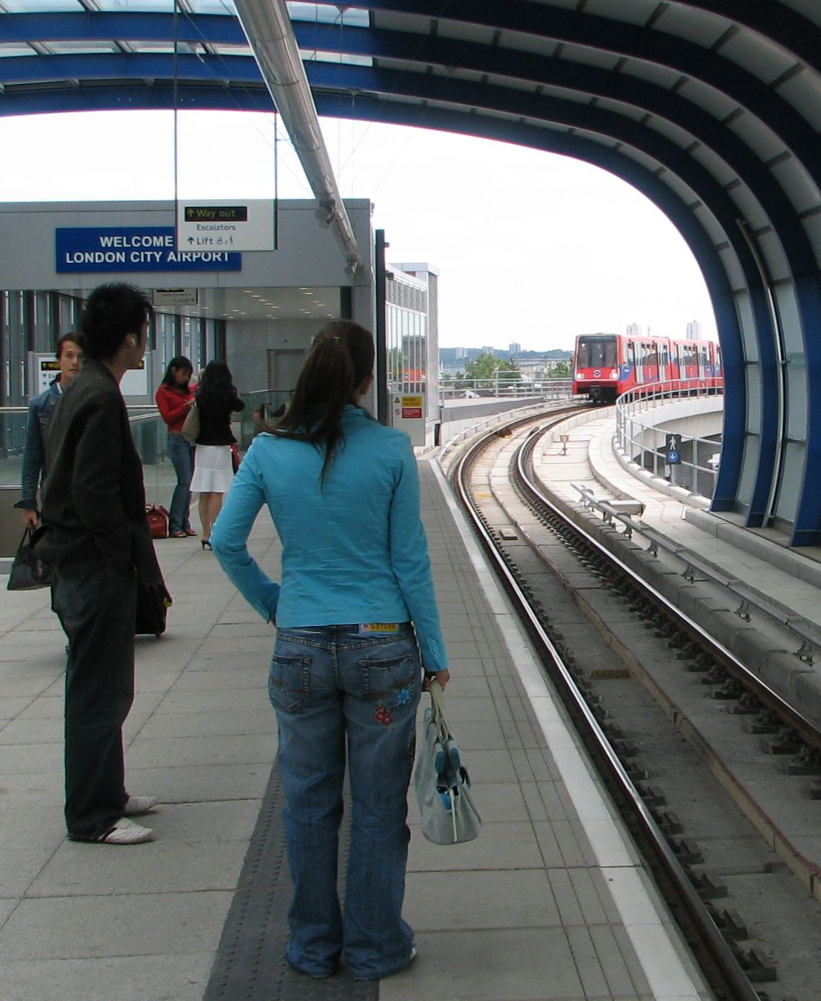 Docklands Light Railway station at London City Airport, photographed 28 June 2006